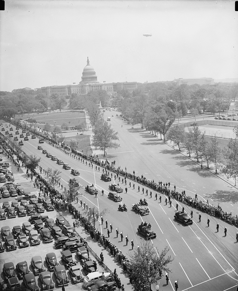 DAZZLING DISPLAY FOR NICARAGUAN PRESIDENT. WASHINGTON, D.C. MAY 5. POMP AND MILITARY MIGHT AS NEVER BEFORE WITNESSED IN THE CAPITAL WAS ON DISPLAY FOR NICARAGUAN PRESIDENT, GEN. ANASTASIO SOMOZA, TODAY AS HE RODE UP HISTORIC PENNSYLVANIA AVENUE WITH PRESIDENT ROOSEVELT AT HIS SIDE. THE AVENUE WAS SOLIDLY FLANKED BY SOLDIERS, SAILORS AND MARINES